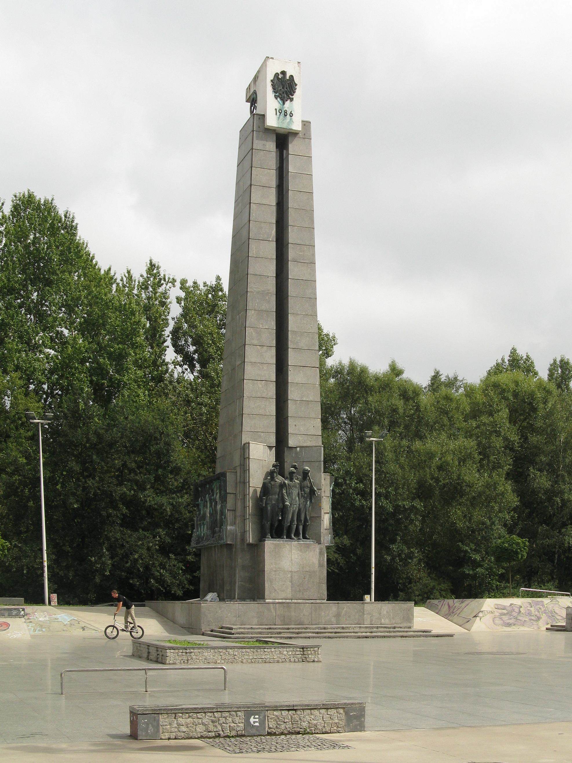 Monument of the Mining Effort in Katowice and skatepark behind it